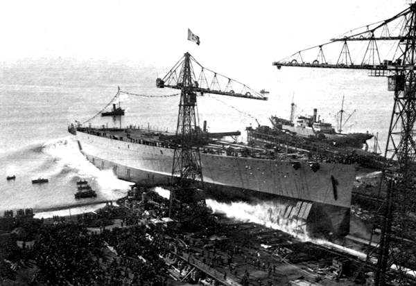 RN Impero during her launching, 1939.